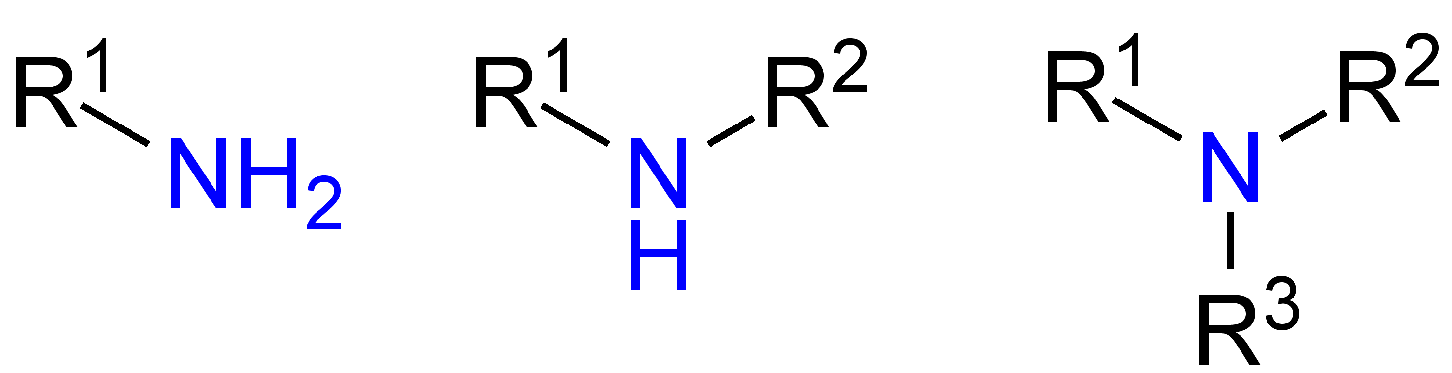 Prim_sec_tert_Amine_Allgemeine_Formulae